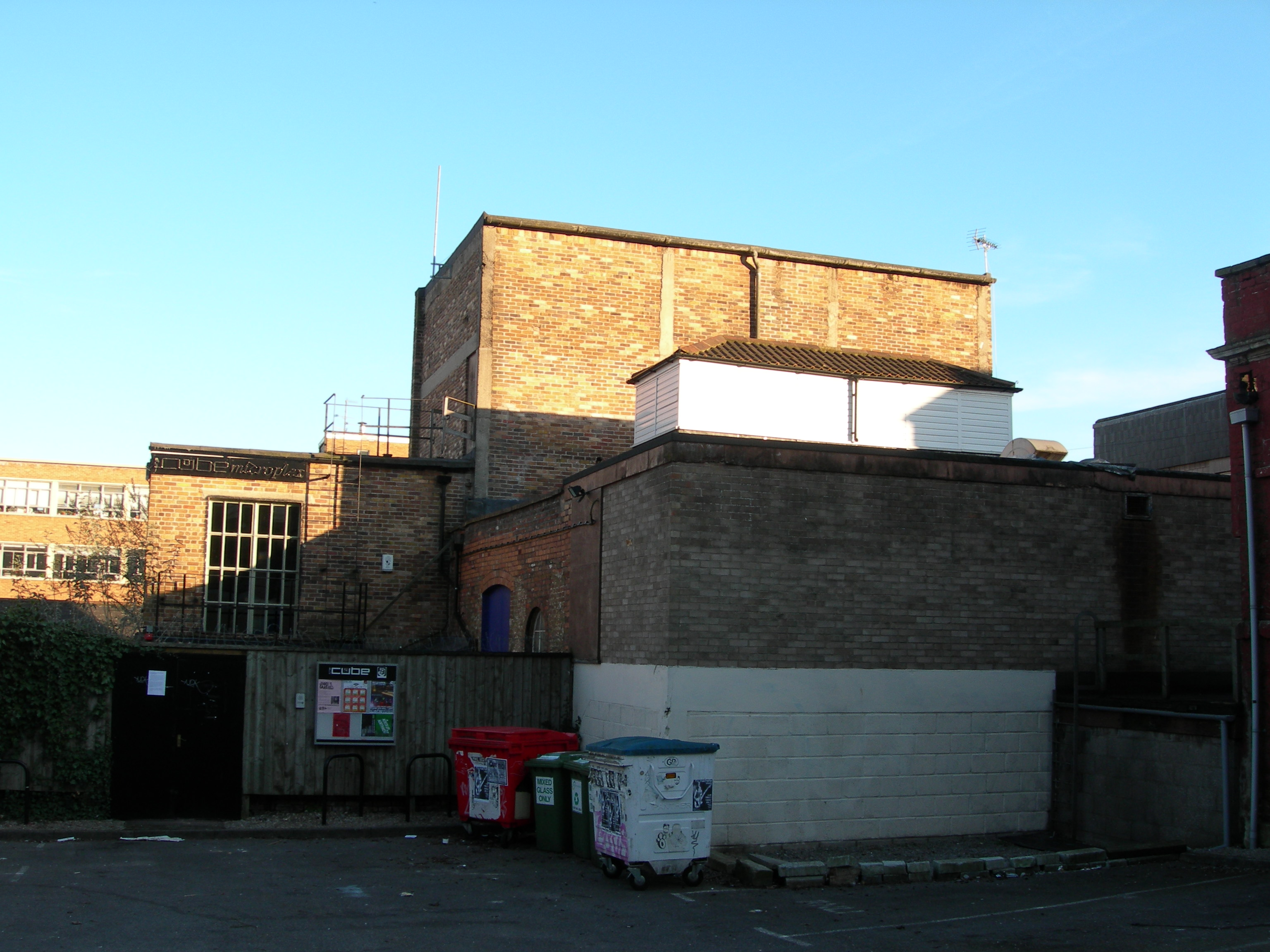 Exterior daytime shot of the Cube Microplex in Bristol, England.